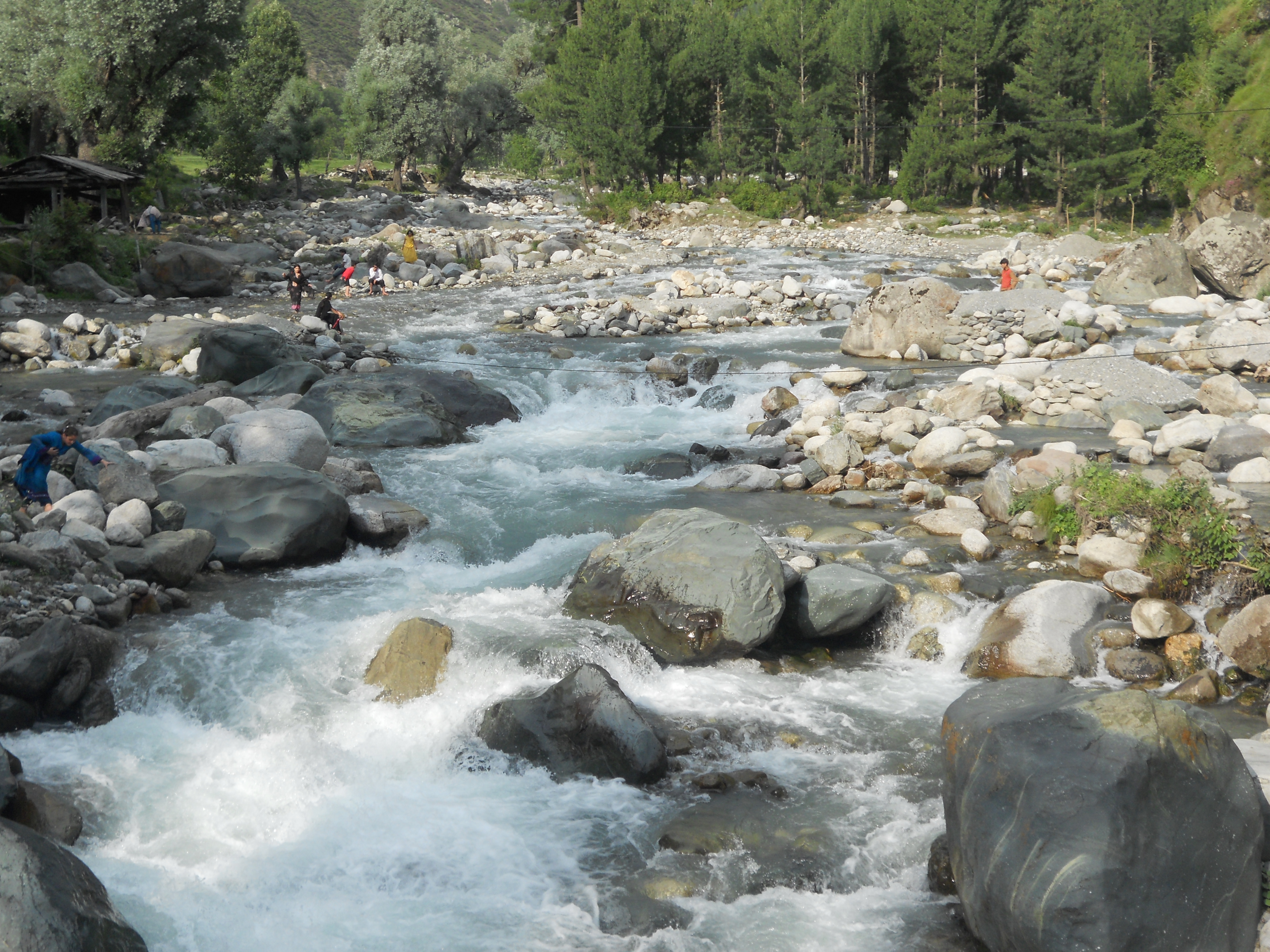 People having fun in running water, Leepa, AJK, Pakistan